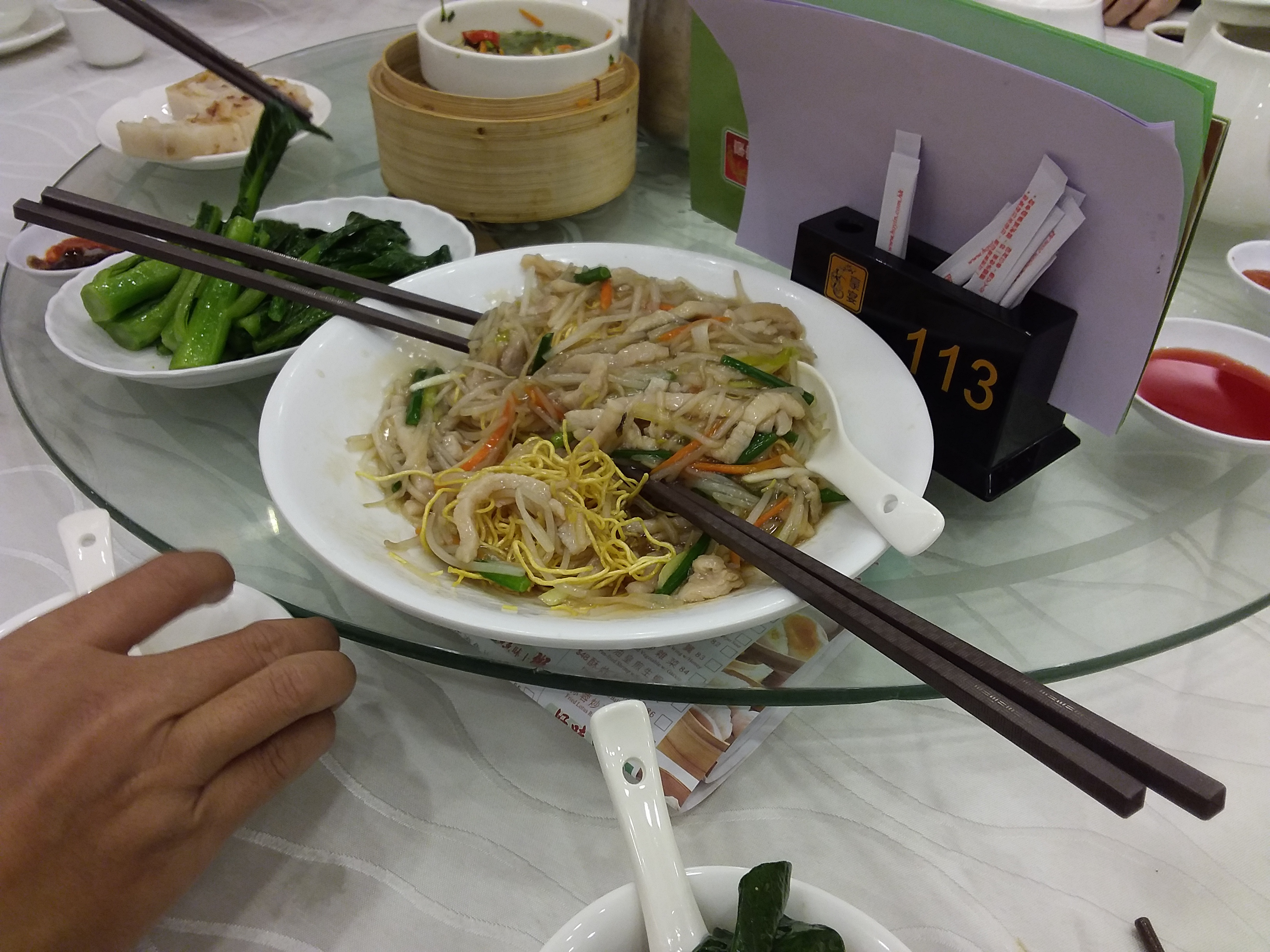 Lunch 點心小食 dim sum 飲茶 tea food HK TKL 調景嶺 Tiu Keng Leng 都會駅 Metro Town Shopping Mall shop 豪宴海鮮酒家 Ho Yin Seafood Restaurant in April 2019 肉絲炒麵